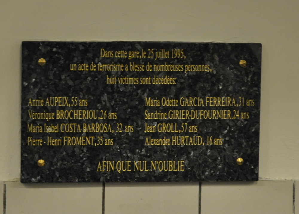 Plaque in memory of the victims of the terrorist attack on the RER B at Saint-Michel, installed on 25 July 2015.